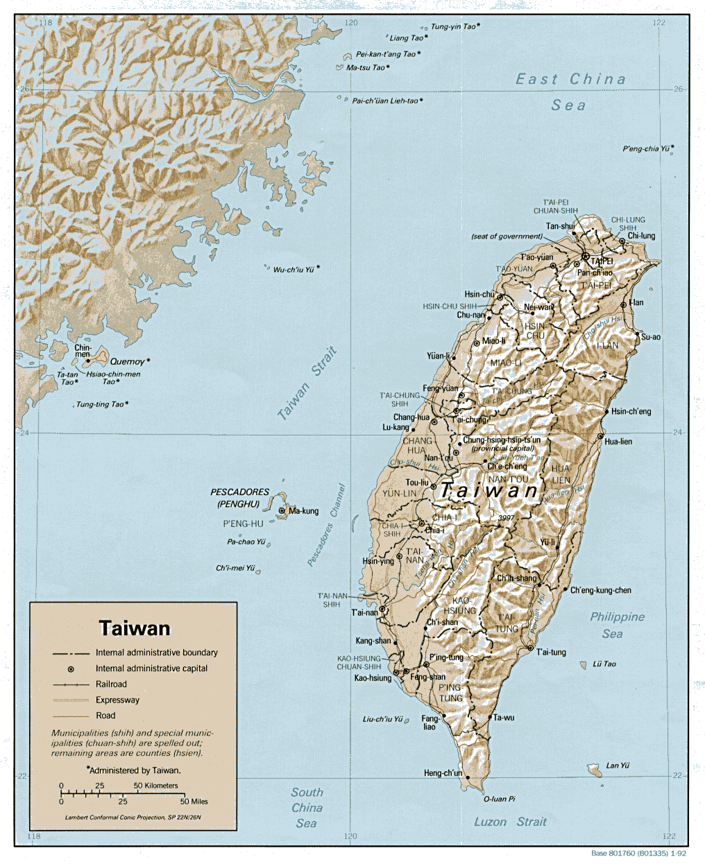 Source: CIA